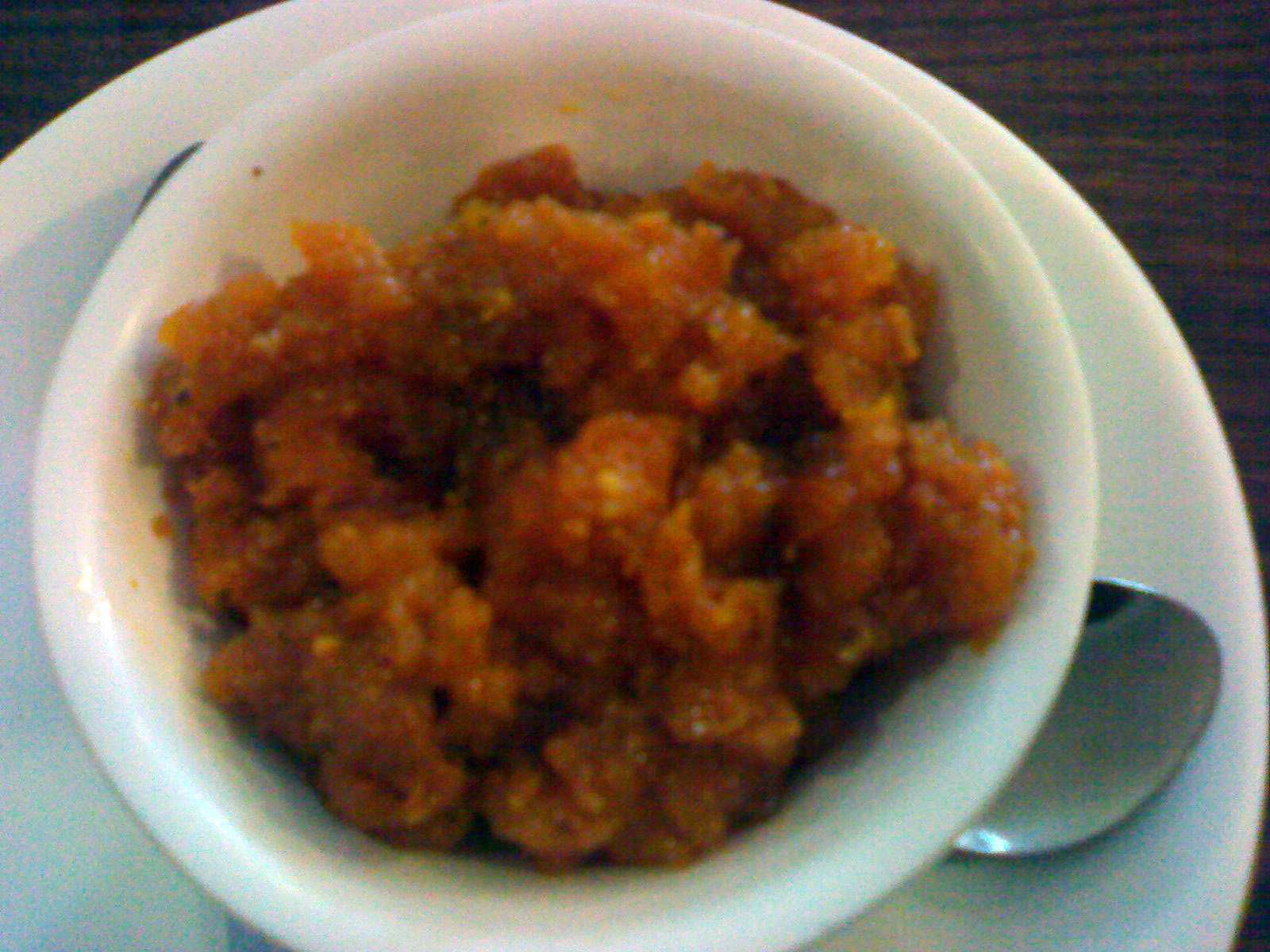 Double ka Meetha, a dessert of Hyderabad.